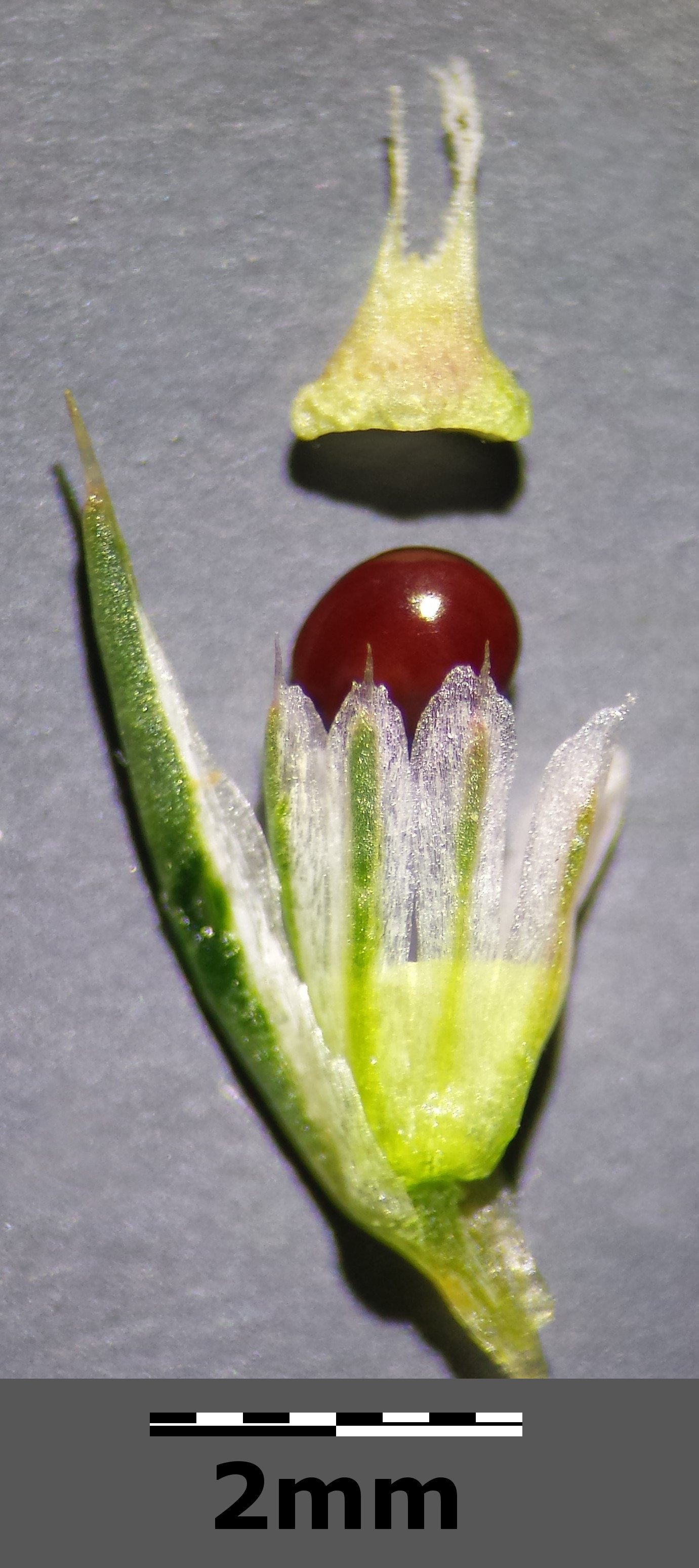 Opened fruit with seed and bracteole Taxonym: Amaranthus retroflexus ss Fischer et al. EfÖLS 2008 ISBN 978-3-85474-187-9 Location: Donaufeld, Vienna-Floridsdorf - ca. 160 m a.s.l. Habitat: border of a field